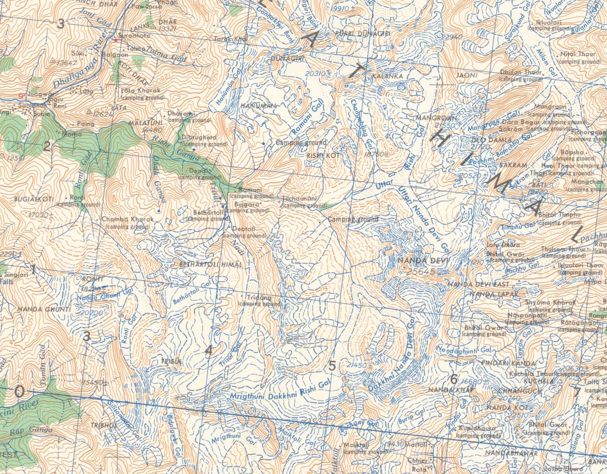 NH 44-6 Nanda Devi. Tile of the Map India and Pakistan 1:250,000. Series U502, U.S. Army Map Service, 1955